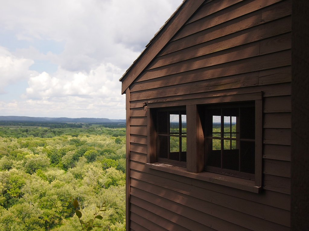 Part of the Helena Shot Tower overlooking the Wisconsin River Valley, Tower Hill State Park, Wisconsin, USA